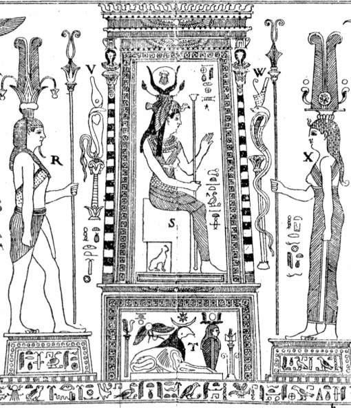 Cropped Version of The Bembine Table of Isis from Athanasius Kircher's Œdipus Ægyptiacus focusing on Isis.